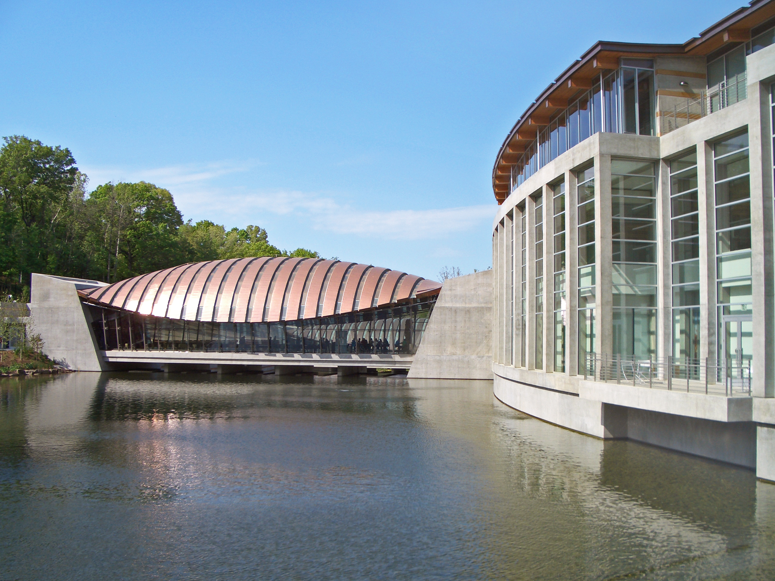 Crystal Bridges Museum of American Art, Bentonville, Arkansas USA, architect Moshe Safdie, photo of one of three bridge pavilions